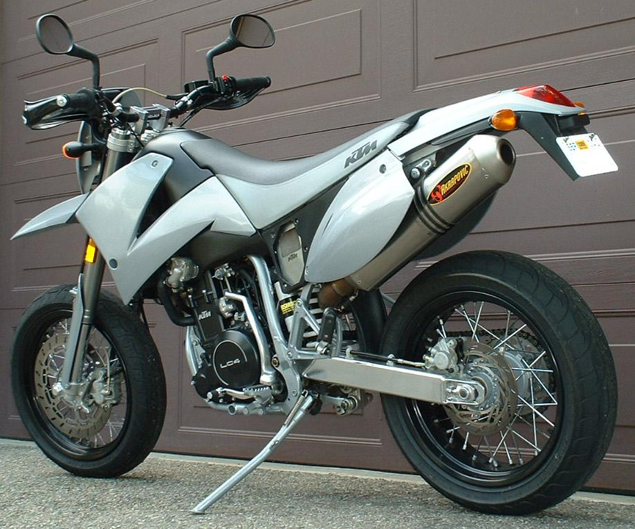 KTM 2000 SMC 625